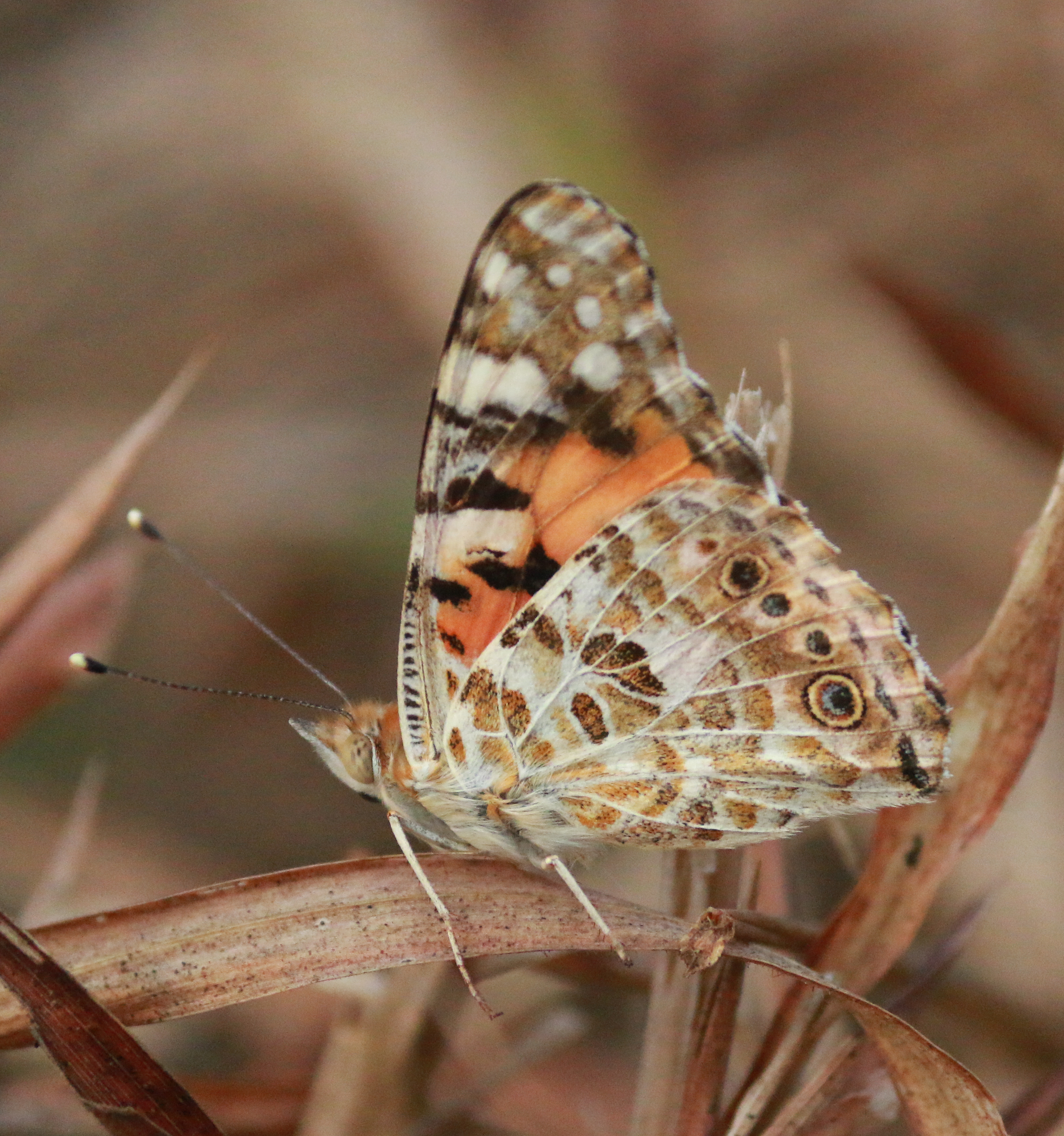 Painted lady